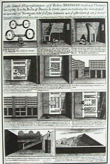 A contemporary image of Jack Sheppards escape route from Newgate